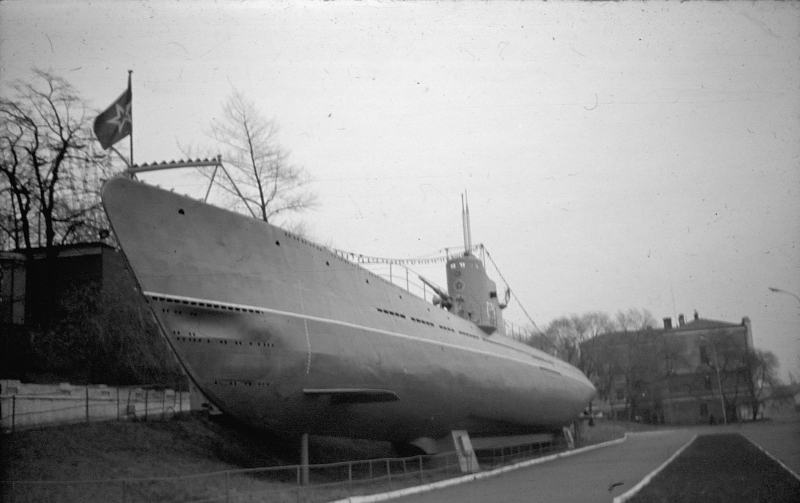 Подводная лодка С-56 Владивосток 1978